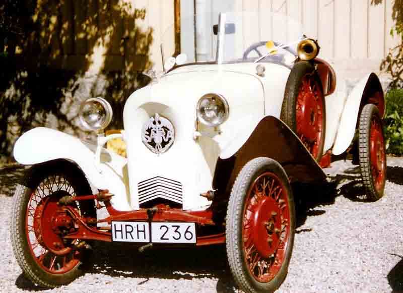 S.A.R.A. 2-Seater Sports 1923